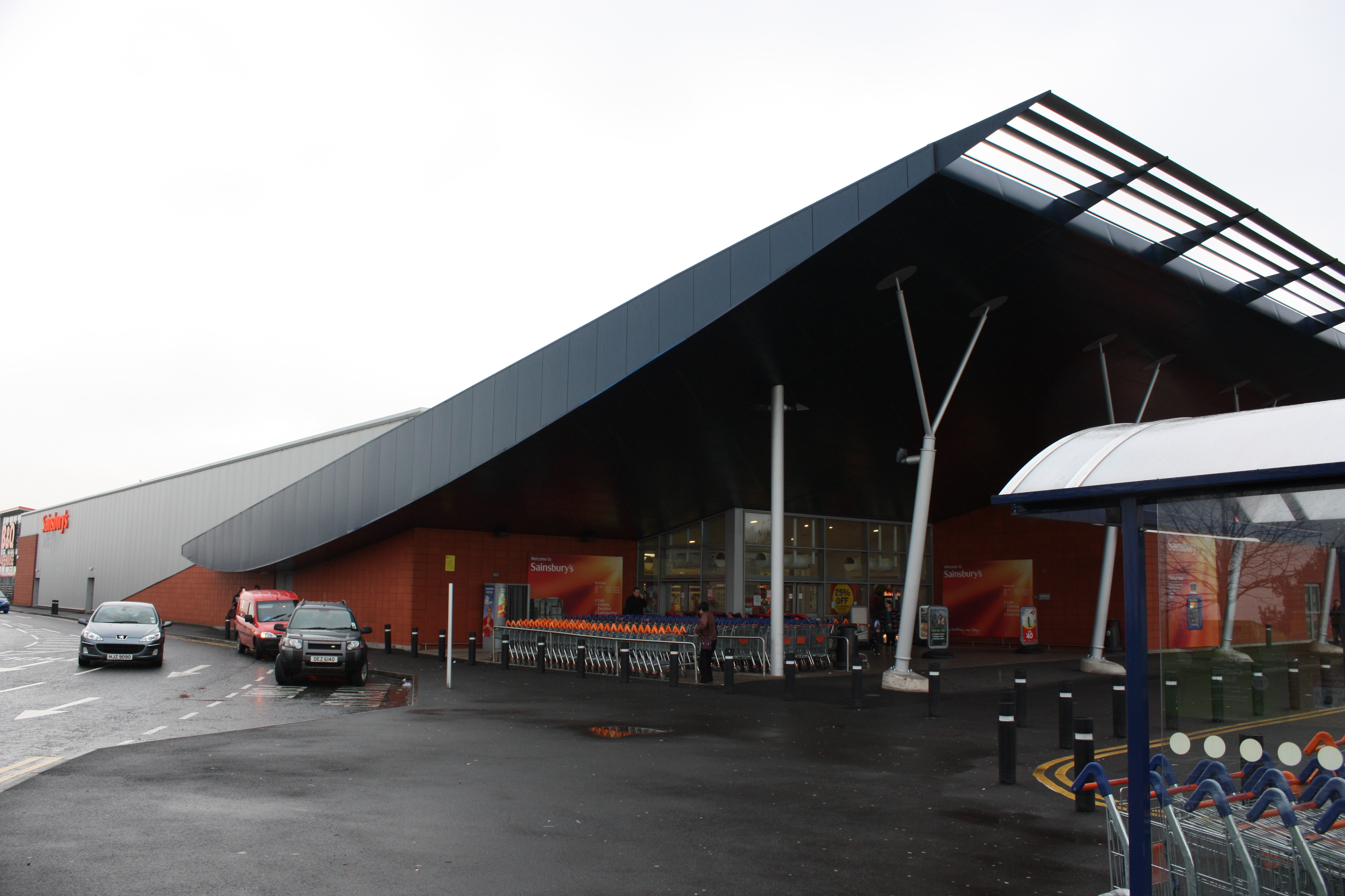 Sainsbury's supermarket, Holywood Exchange, Airport Road West, Belfast, Northern Ireland, February 2010